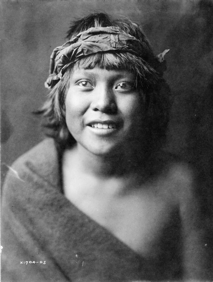 "Portrait of a Tewa boy" head-and-shoulders, facing front.